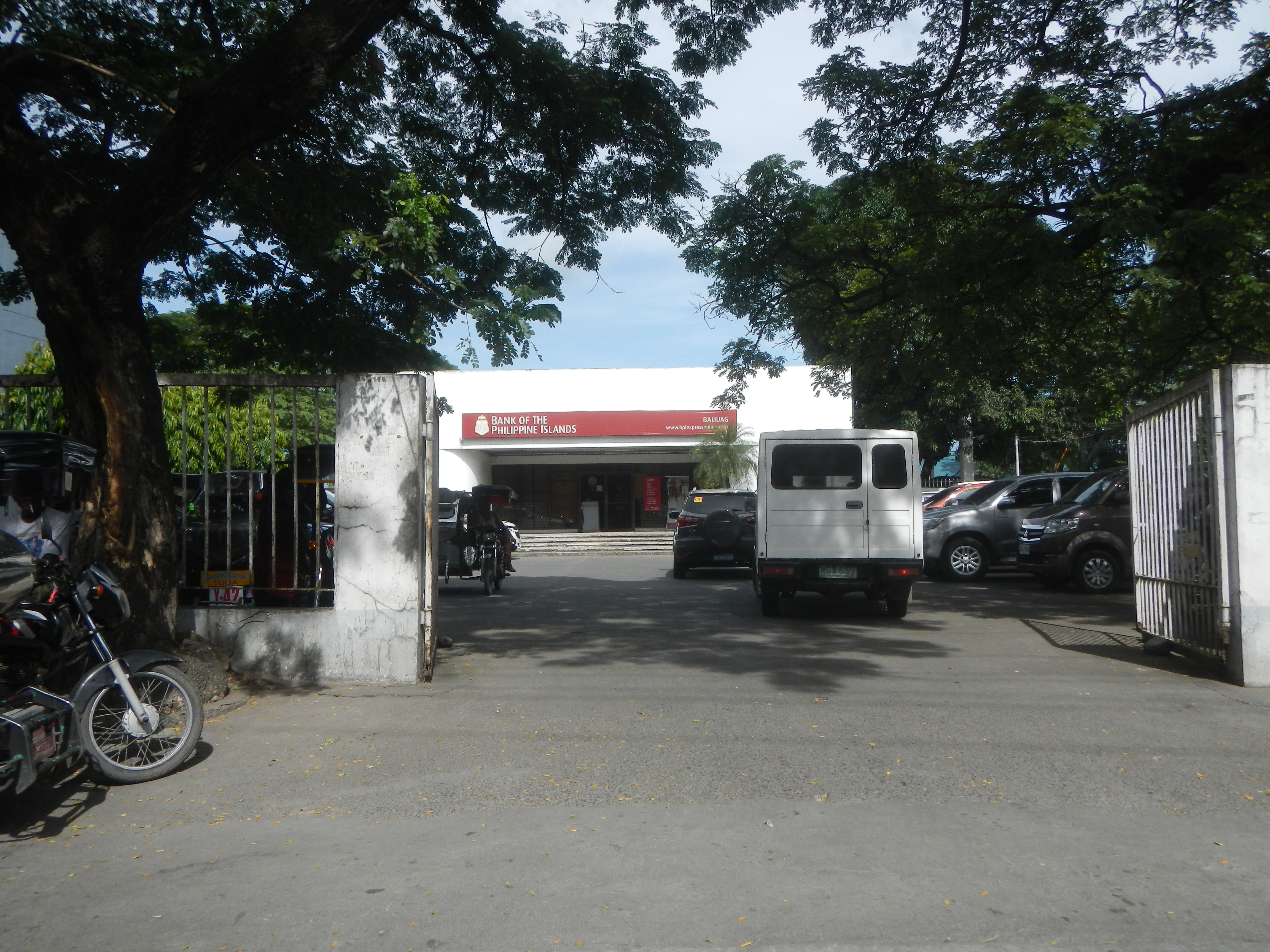 B. S. Aquino Avenue (Bagong Nayon, Baliuag, Bulacan) B. S. Aquino Avenue 14°57'36"N 120°53'57"E Bagong Nayon Latitude: 14° 57' 33.5" (14.9593°) north Longitude: 120° 53' 57.7" (120.8994°) east Average elevation: 22 meters (72 feet) Mariano Ponce National High School (Baliuag) 14°57'36"N 120°53'57"E Baliuag, Bulacan, Bulacan along DRT Highway or Maharlika Highway (Cagayan Valley Road, Baliuag-Pulilan-Guiguinto, Bulacan) Pan-Philippine Highway, also known as the Maharlika "Nobility/freeman" Highway or Asian Highway 26, Cagayan Valley Road (Note: Judge Florentino Floro, the owner, to repeat, Donor Florentino Floro of all these photos hereby donate gratuitously, freely and unconditionally all these photos to and for Wikimedia Commons, exclusively, for public use of the public domain, and again without any condition whatsoever).